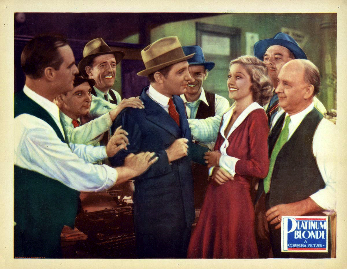 Lobby card for the American romantic comedy film Platinum Blonde (1931) with Edmund Breese, Vance Carroll, Eddy Chandler, Tom London, Oliver Eckhardt, Charles Jordan, Robert Williams, and Loretta Young.